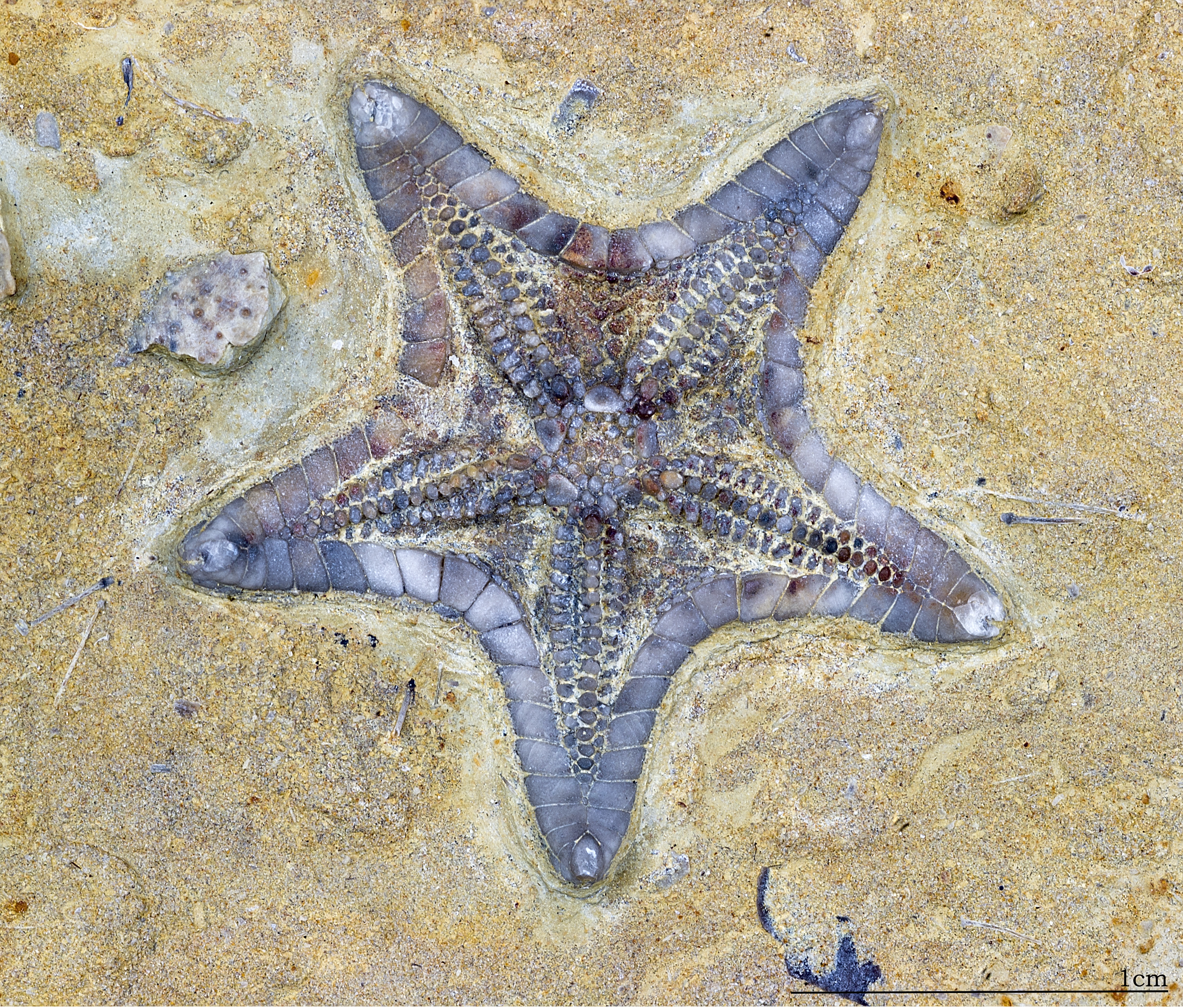 Holotype of Marocaster coronatus. Barremian 130.0 ± 1.5 Ma (million years ago) and 125.0 ± 1.0 Ma